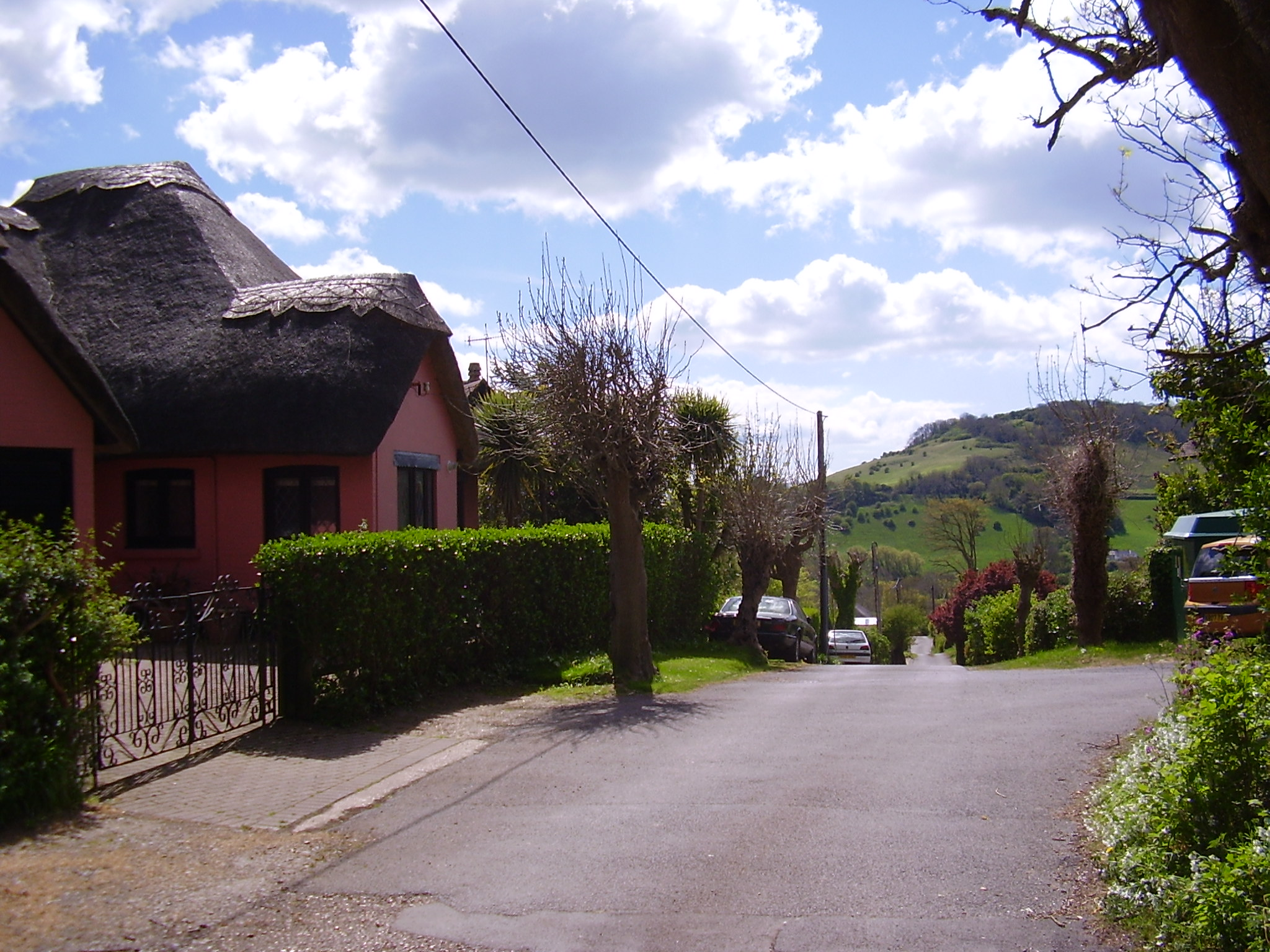 Village of Luccombe, Isle of Wight, UK